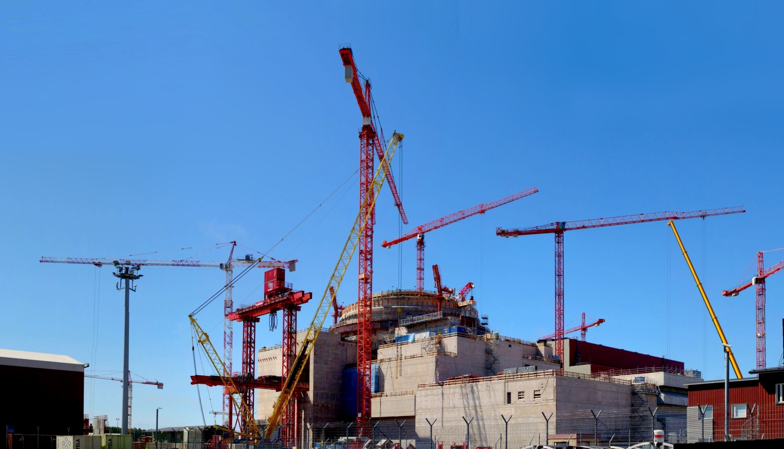 Unit 3 of Olkiluoto NPP, Finland